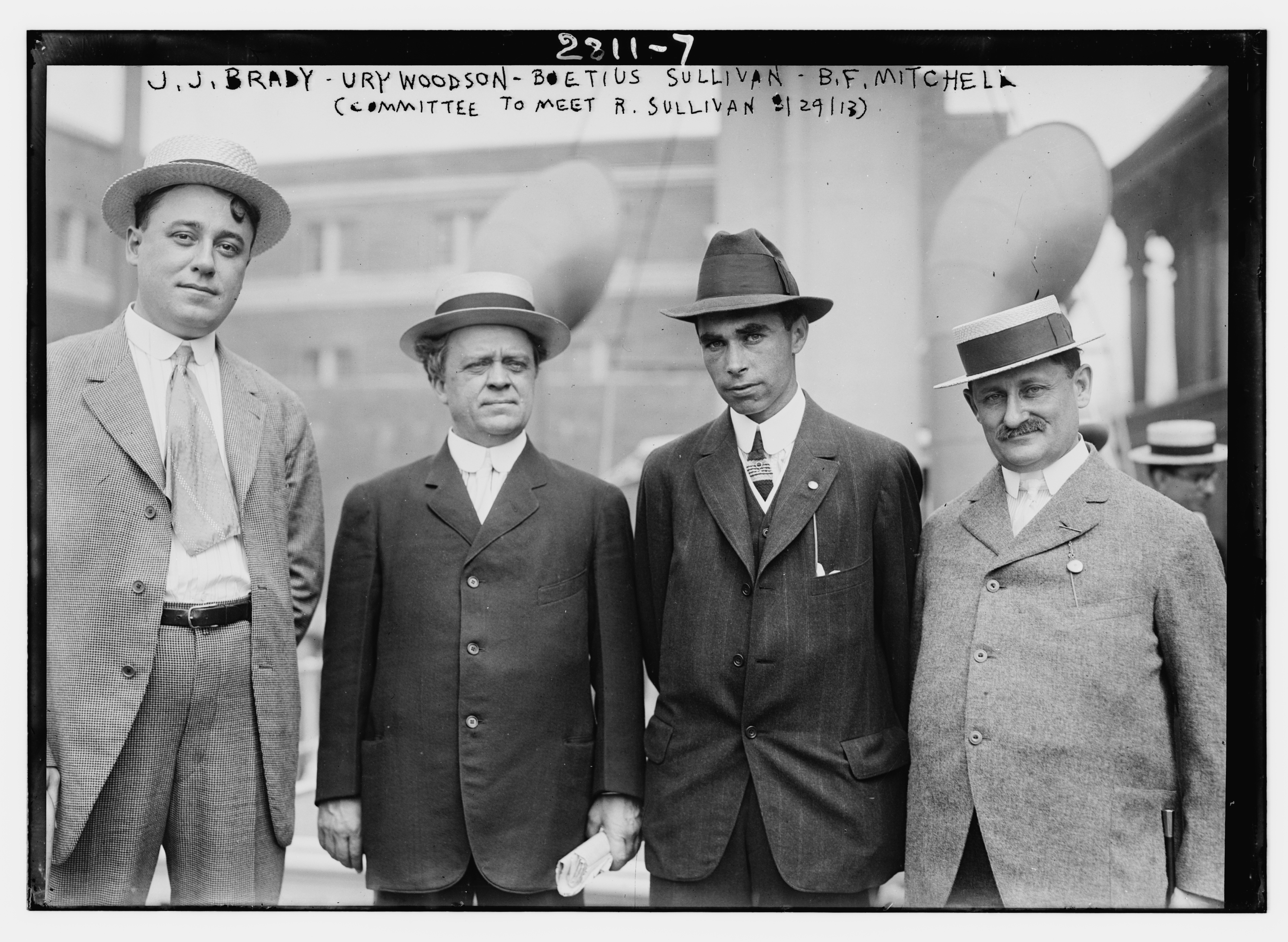 Bain News Service,, publisher. J. J. Brady, Urey Woodson, Boetius Henry Sullivan, B. F. Mitchell -- Committee to meet R. Sullivan [between ca. 1910 and ca. 1915] 1 negative : glass ; 5 x 7 in. or smaller. Notes: Title from unverified data provided by the Bain News Service on the negatives or caption cards. Forms part of: George Grantham Bain Collection (Library of Congress). Format: Glass negatives. Repository: Library of Congress, Prints and Photographs Division, Washington, D.C. 20540 USA, General information about the Bain Collection is available at Persistent URL: Call Number: LC-B2- 2811-7